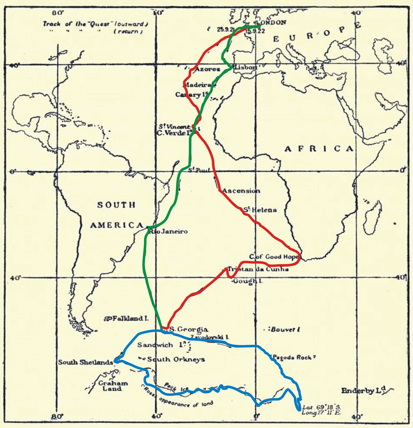 Map with the routes of the Shackleton-Rowett Expedition (green: outward journey to South Georgia; blue: journey through the pack ice; red: return journey to Plymouth)